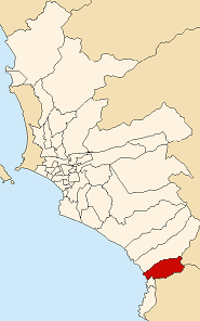 Map of Lima highlighting the San Bartolo district in Lima.